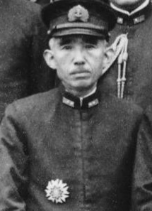 Ibou Takahashi is an Imperial Japanese Navy Vice Admiral